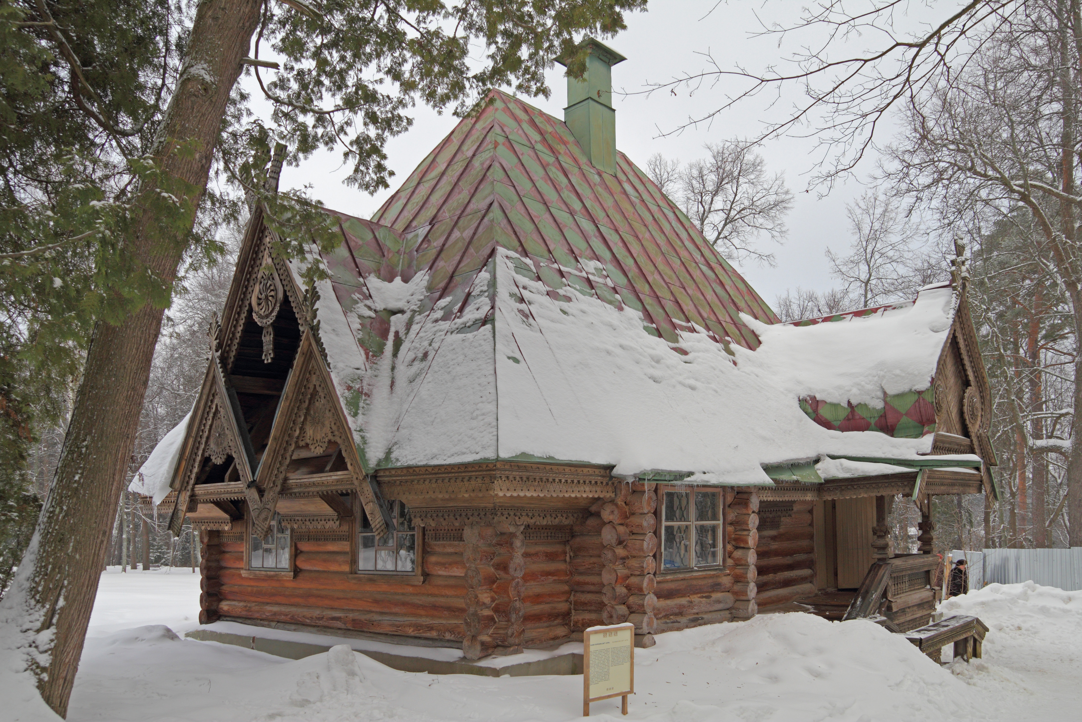 Abramtsevo museum-reserve in Moscow Oblast, Russia. The bathhouse.